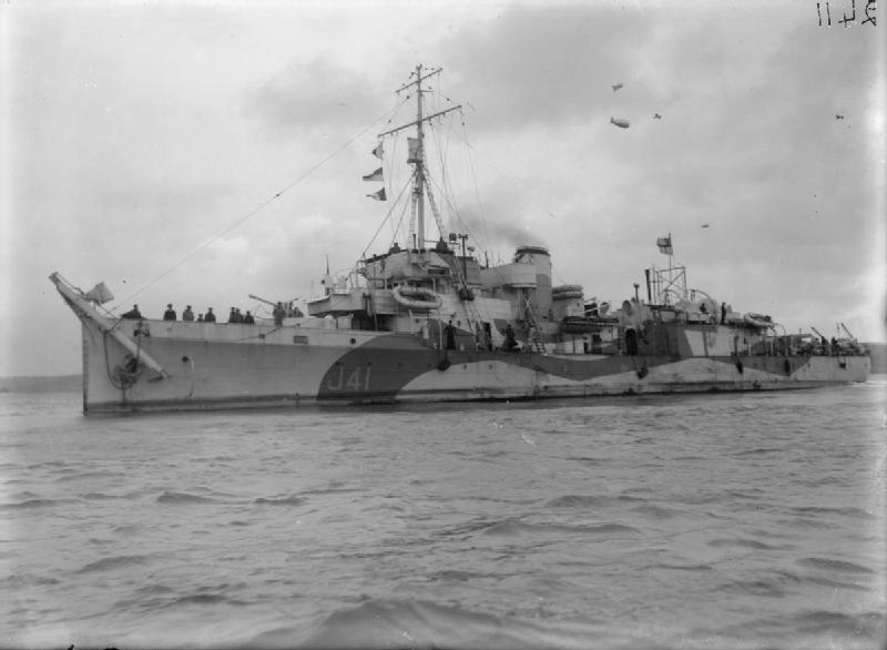 Photograph of British Hunt class minesweeper HMS Albury (J41).